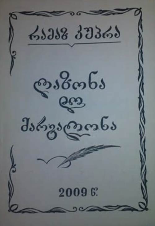 mingrelian collected poems